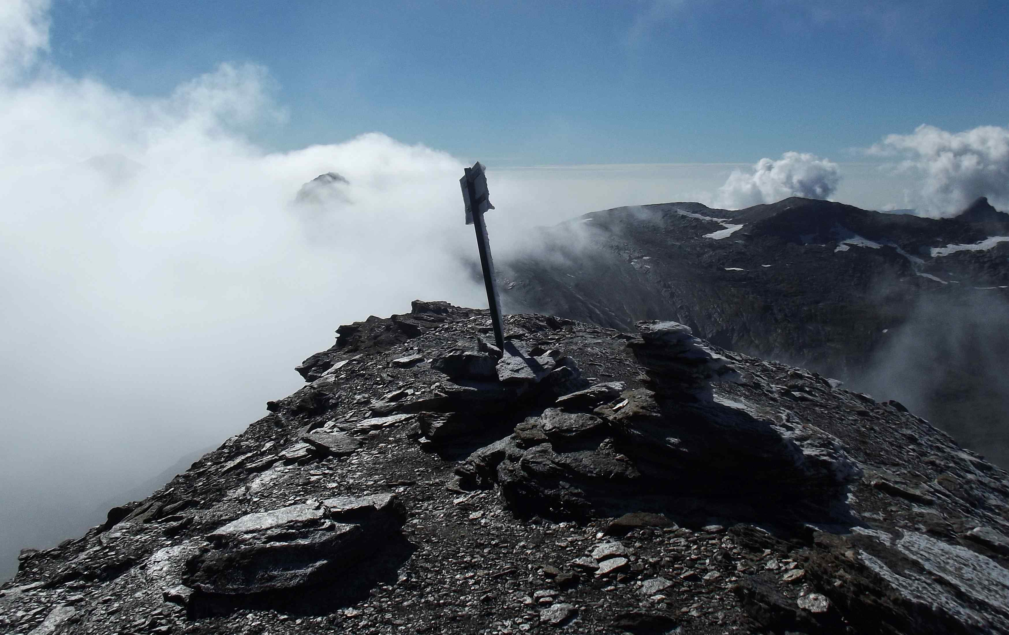 Tour-de-Ponton: the summit (Aosta Valley, Italy)